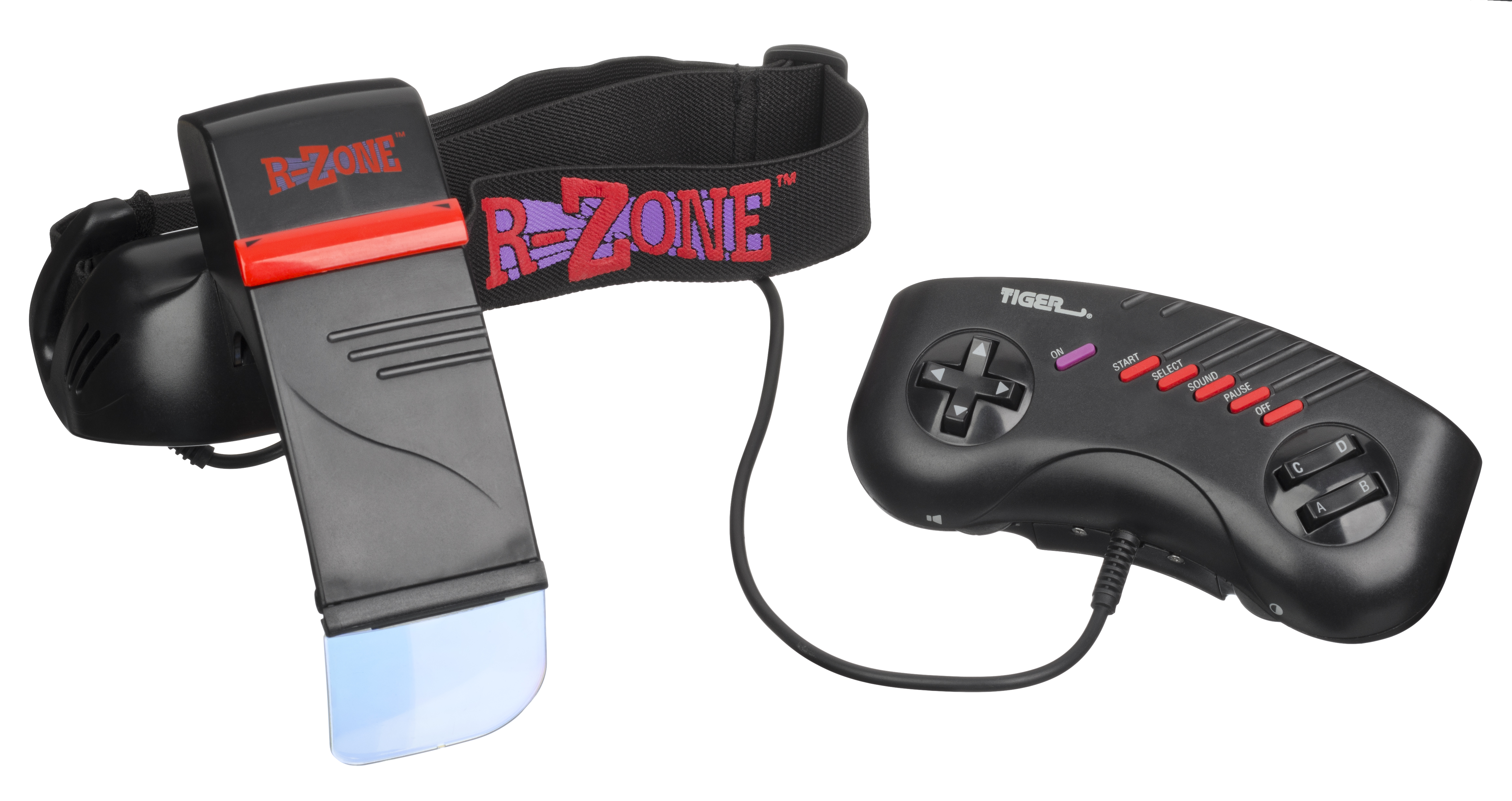 The Tiger R-Zone, a portable game console released in 1995. The system was not much different than Tiger's line of dedicated handheld LCD games, and uses swappable LCD screen cartridges.